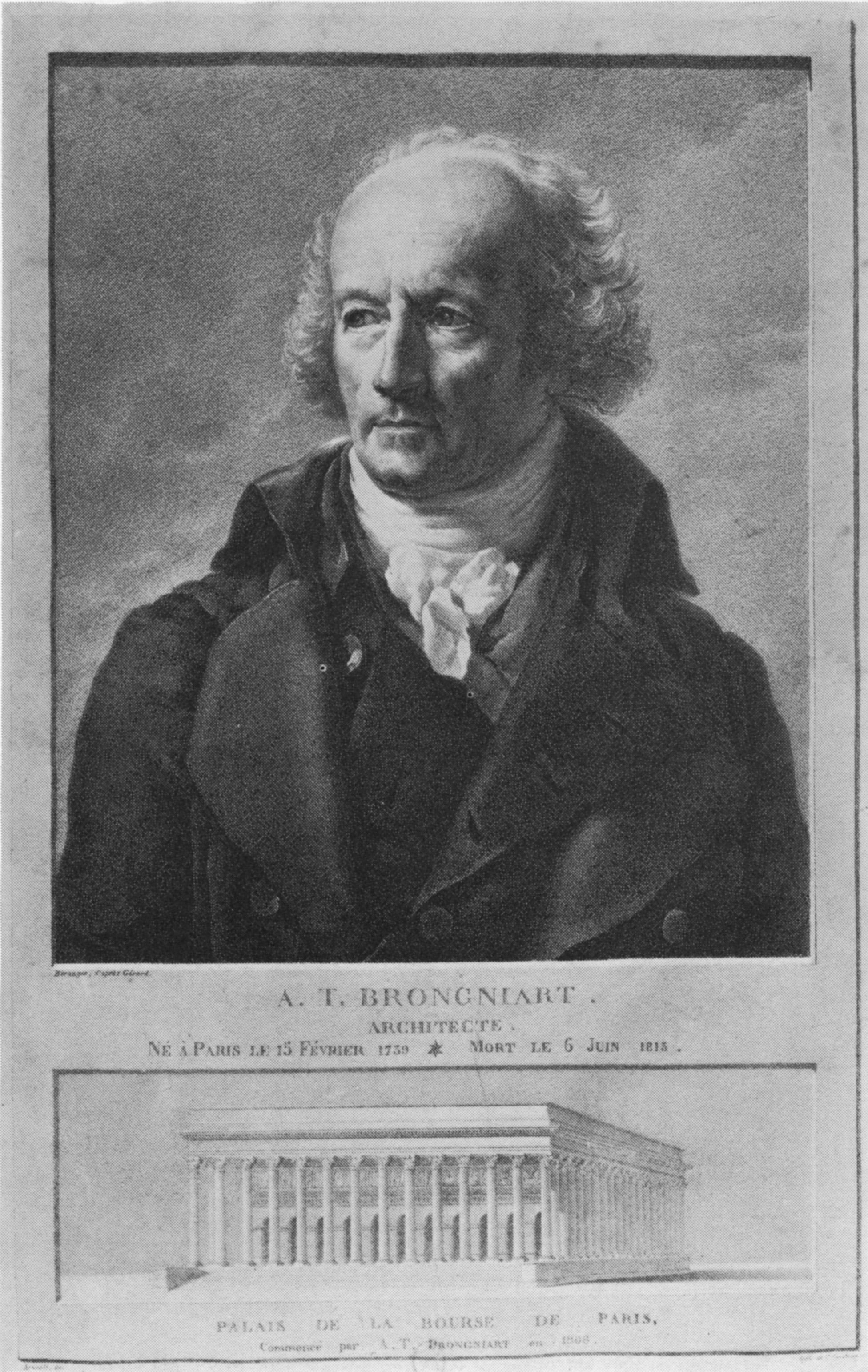 A late portrait of the French architect Alexandre-Théodore Brongniart with his design for the Paris Bourse (1808)